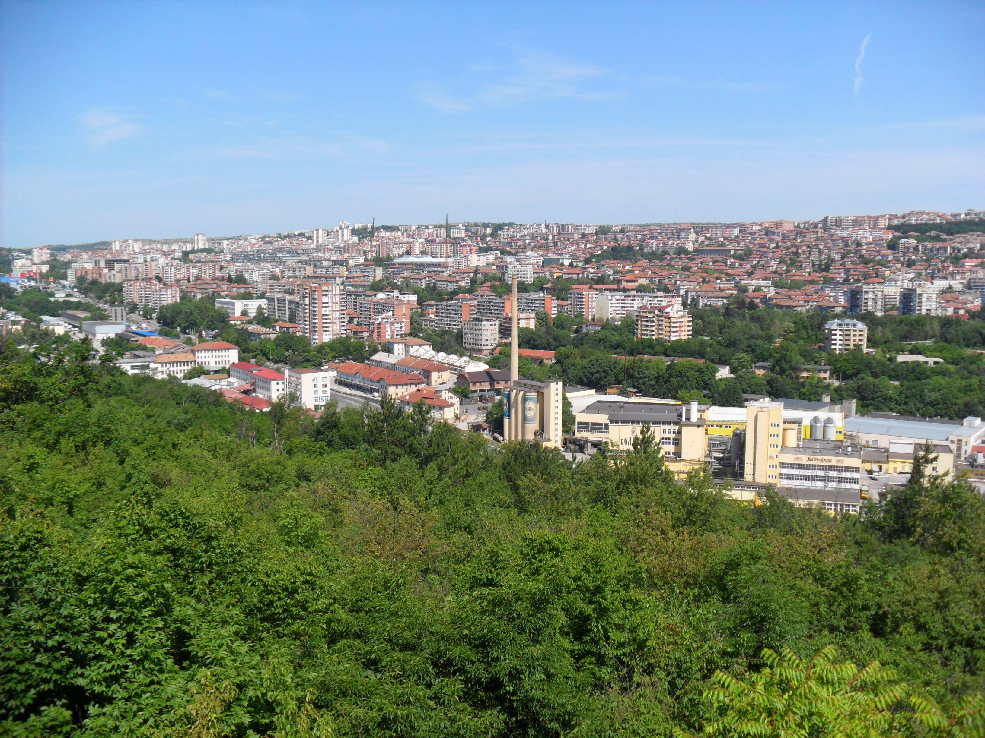 Panorama Veliko Tarnovo